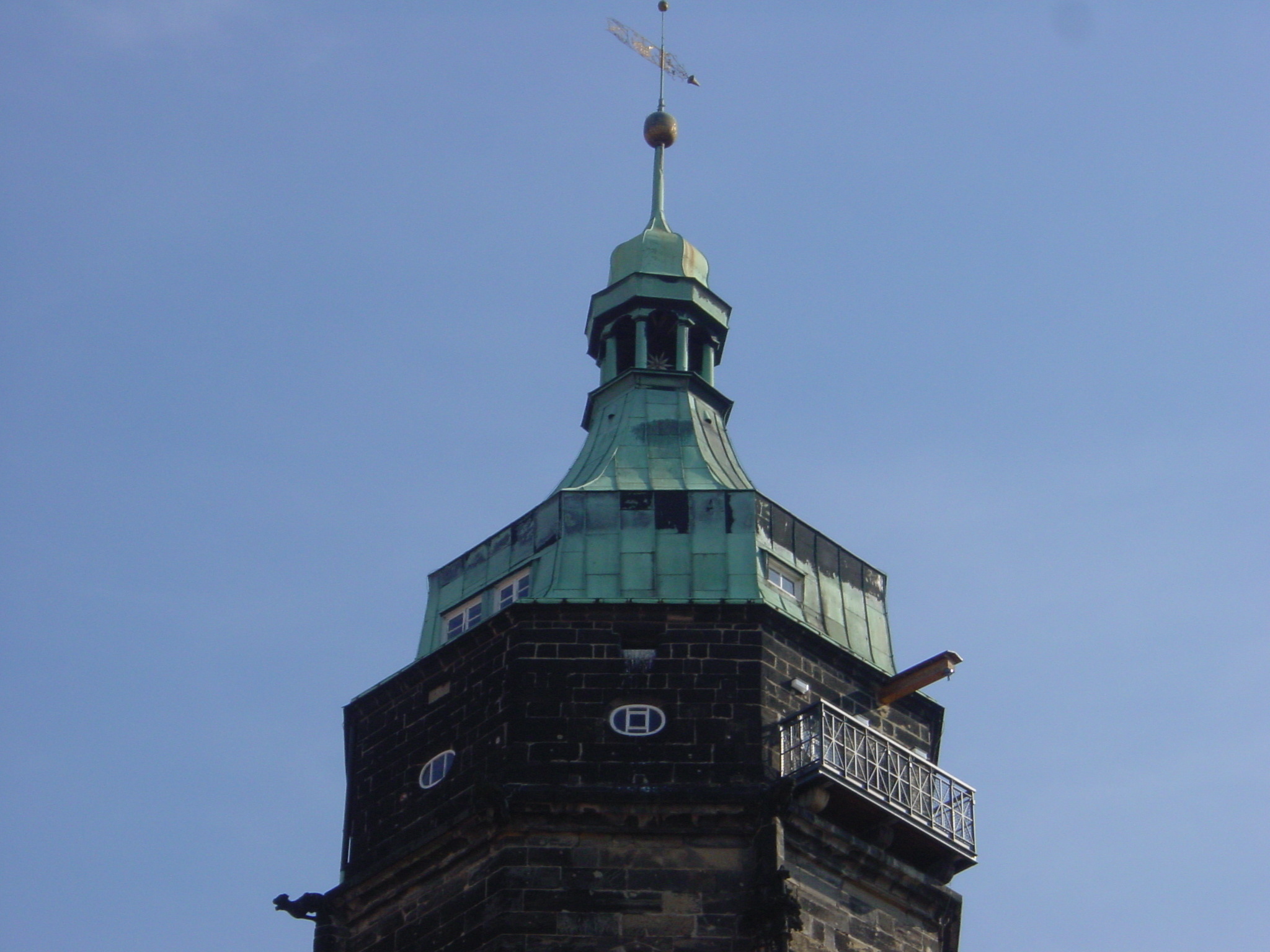 cantilever on the tower of a church